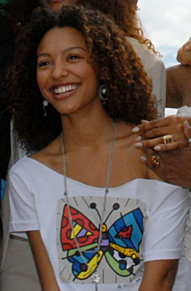 Sharon Menezes, Brazilian actress